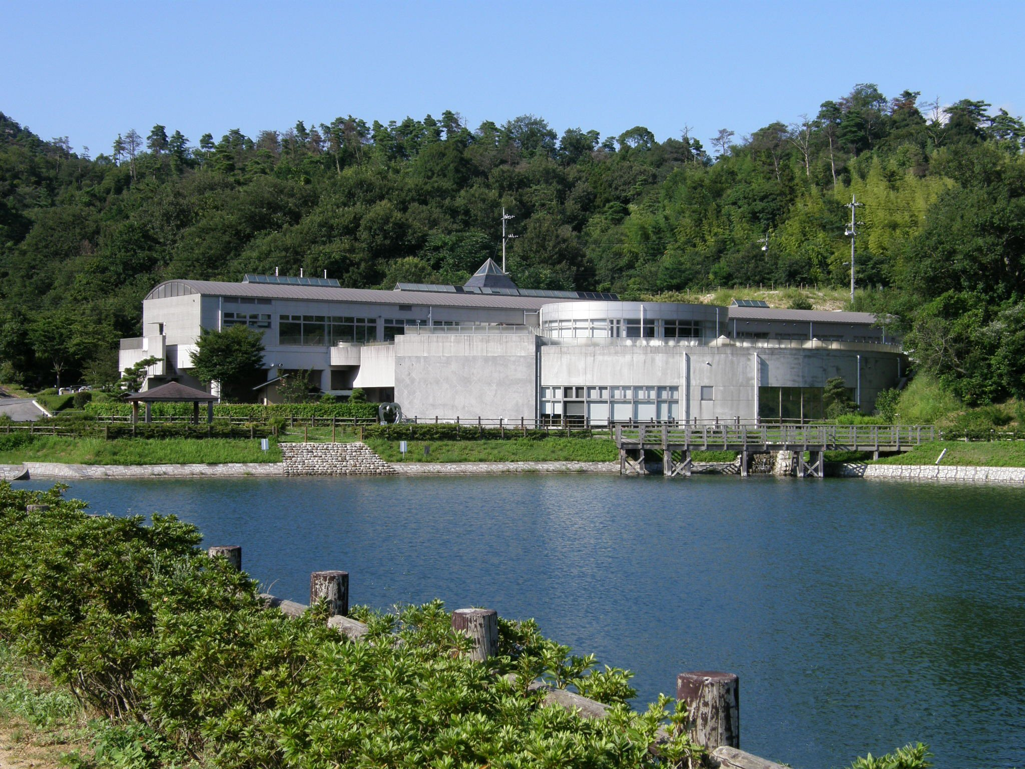 Externals of FUDE NO SATO KOBO